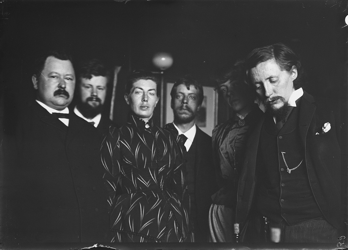 Tachtigers. Van links naar rechts Willem Versluys, Hein Boeken, Annette Versluys-Poelman, Charles van Deventer, Mieb Pijnappel en Willem Kloos